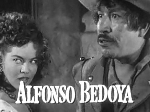 Mexican actor Alfonso Bedoya, with Dona Drake, in Fortunes of Captain Blood (1950) - trailer (cropped screenshot).